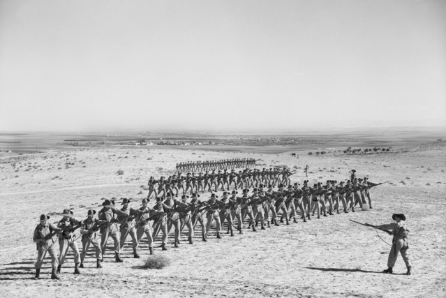 AWM 004612: A Company of the 2/27th Battalion at bayonet practice in Palestine, 12 December 1940